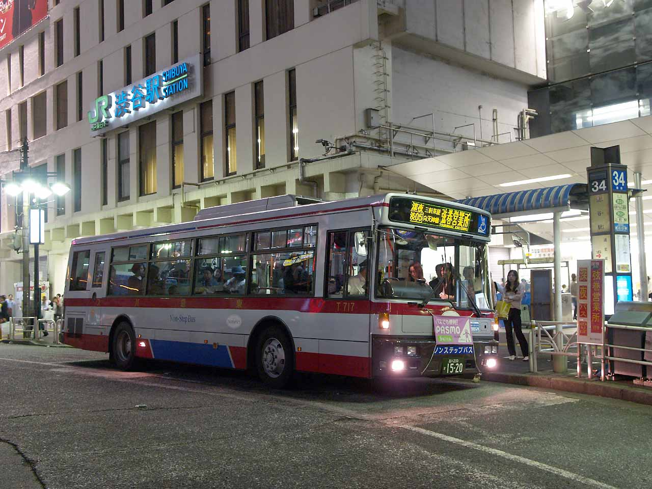 Tokyu Bus "Shibu 05" route. Model: Nissan Diesel RA273 or RA274 License plate: TKS200 KA1520 Place: Shibuya station west, Shibuya ward, Tokyo Japan